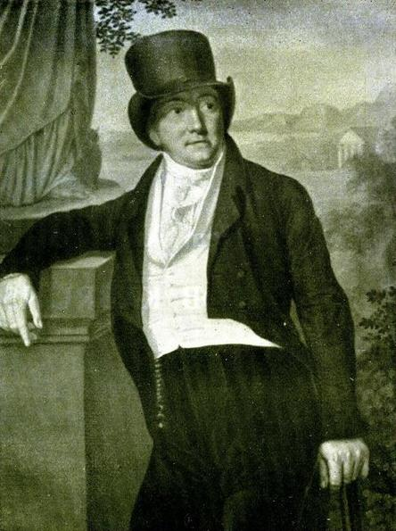 Portrait of Jacob Kabrun Jr. (1759-1814), a merchant from Danzig coming from a Scottish family.